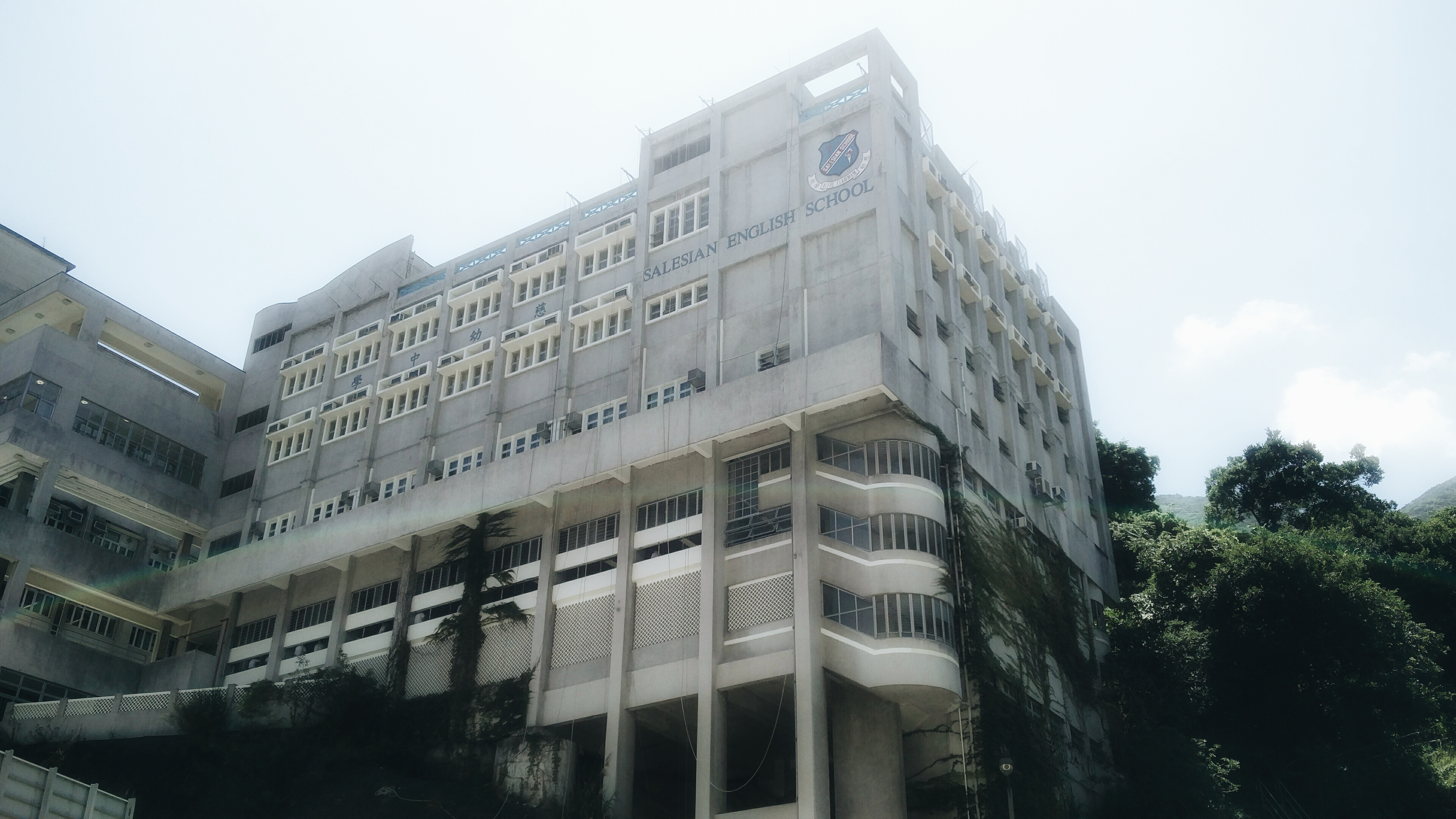 The view of Salesian English School from Chai Wan Road